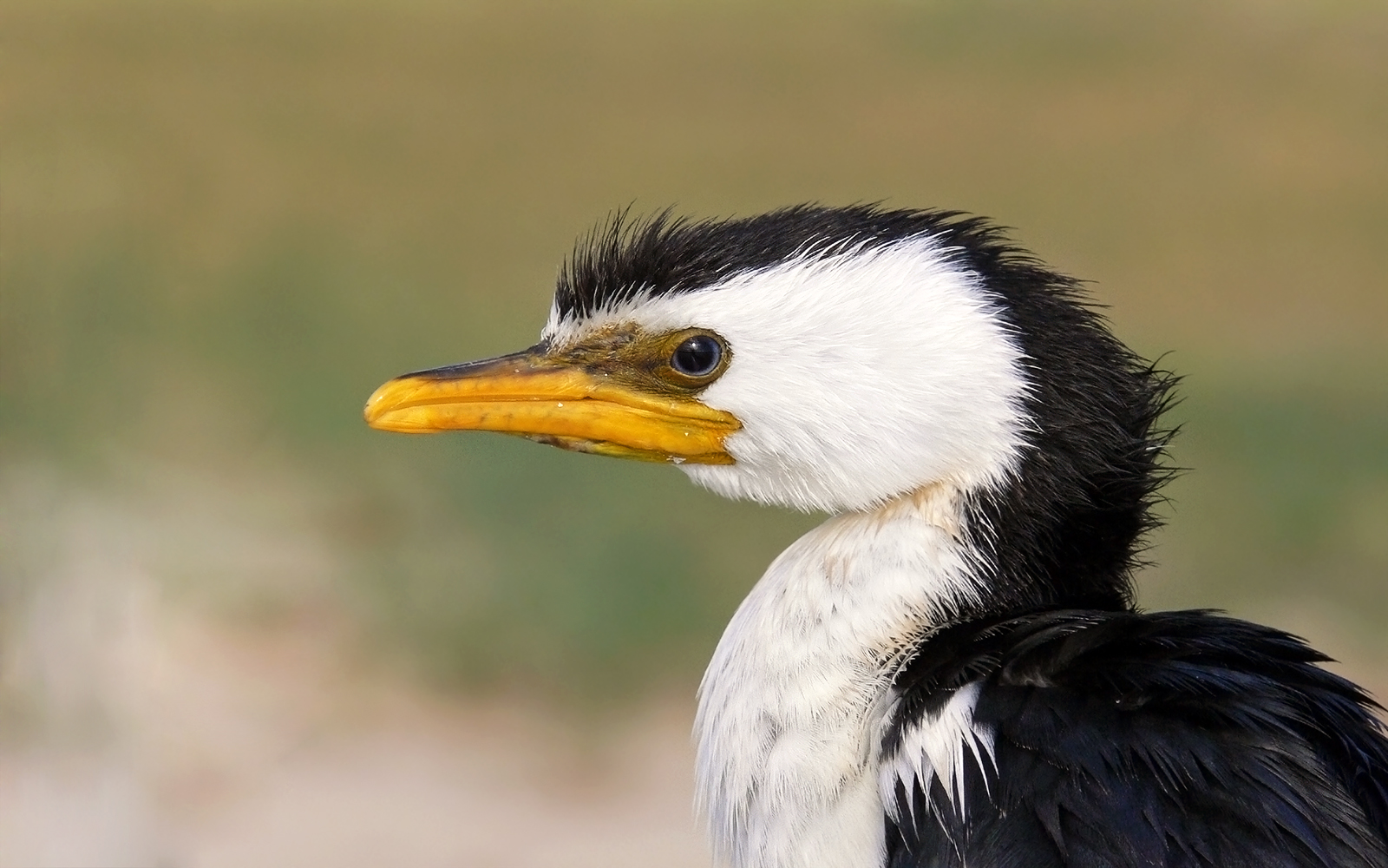 The facial features of the little pied cormorant.